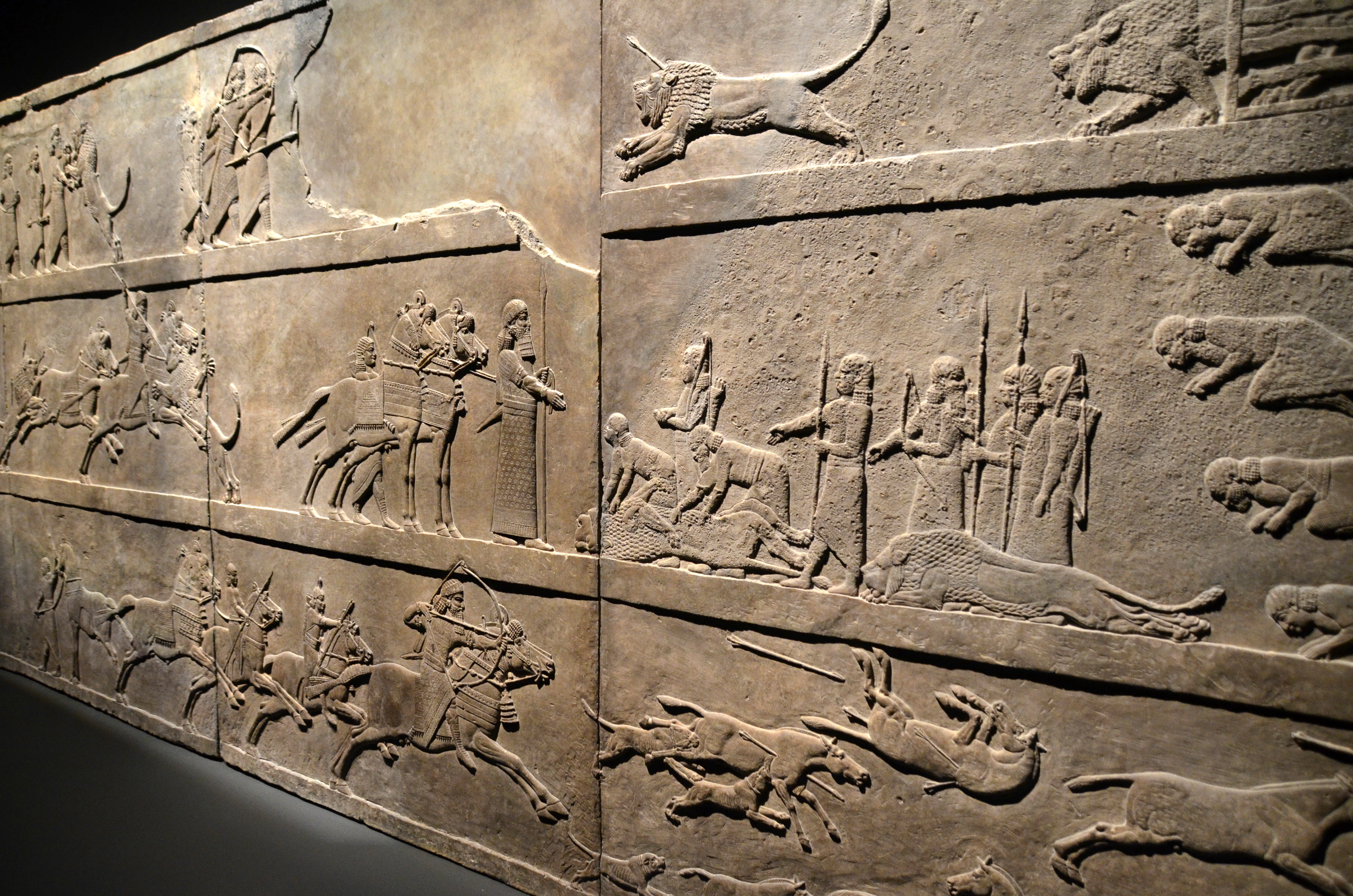 Exhibition: I am Ashurbanipal king of the world, king of Assyria, British Museum